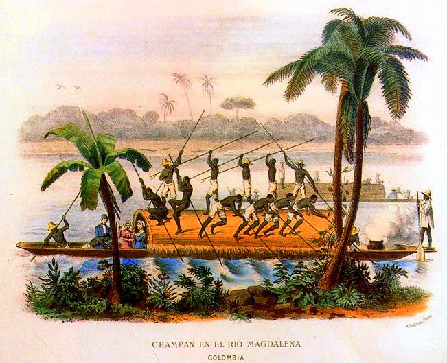 Aquatint 26 x 33 cm, color. Sampan carrying a white family being rowed by black slaves over the Magdalena River.